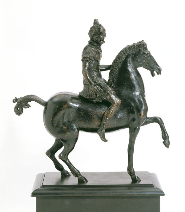 Statuette of The Shouting Horseman, about 1510, Andrea Briosco (1470-1532) V&A Museum no. A.88:1-1910 Techniques - Cast bronze Place - Padua, Italy Dimensions - Height (excluding base) 33 cm, Width (tail to hoof) 33 cm